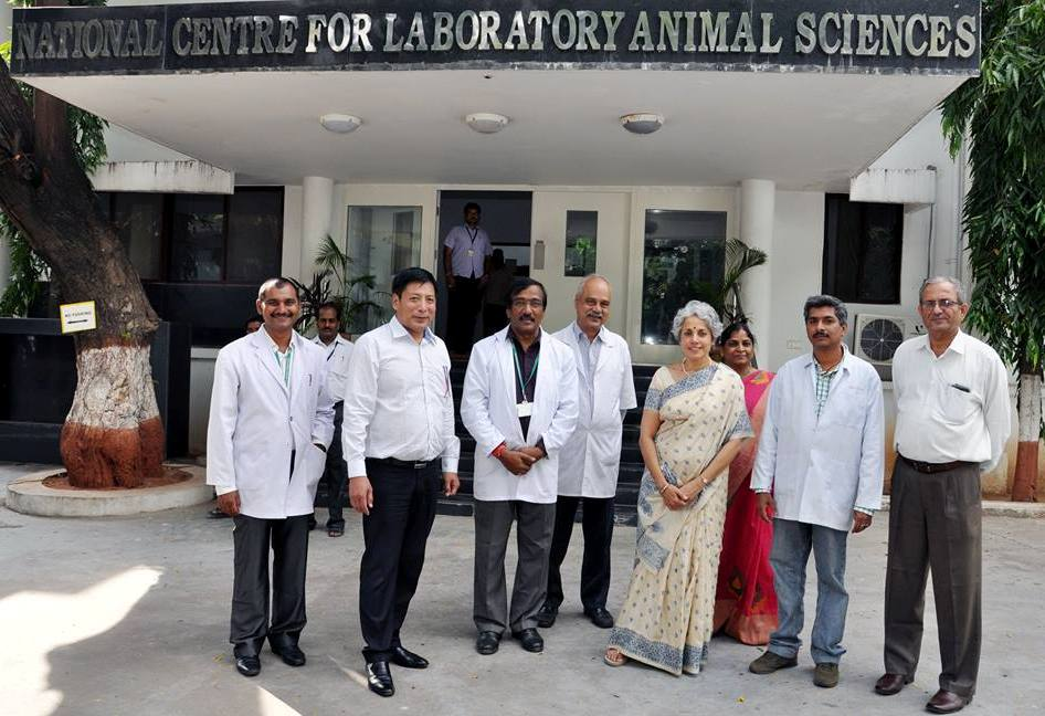 ICMR - NIN - NCLAS.jpg